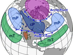 Source regions of common air masses